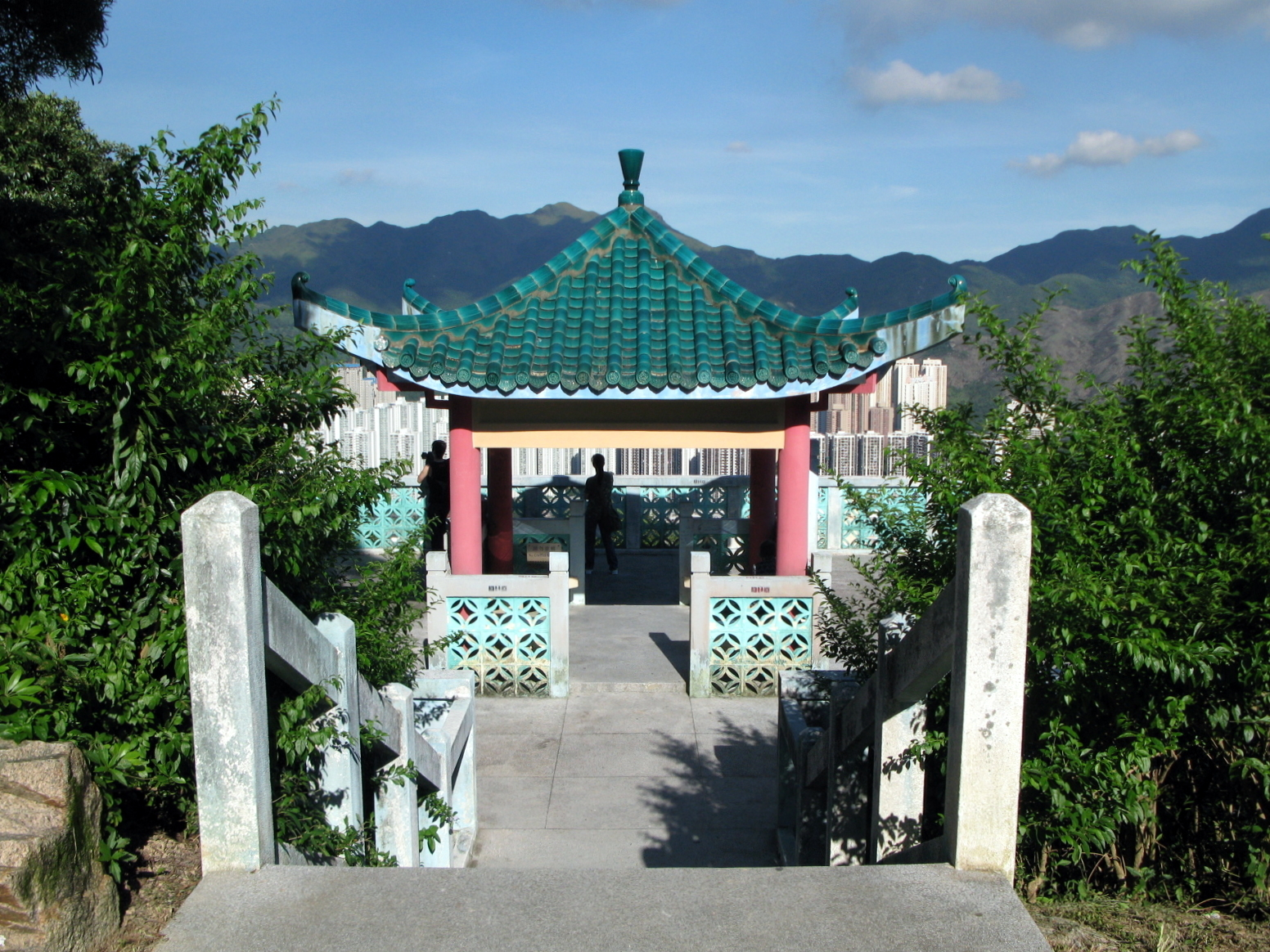 Shatin Lion Pavilion 沙田獅子亭